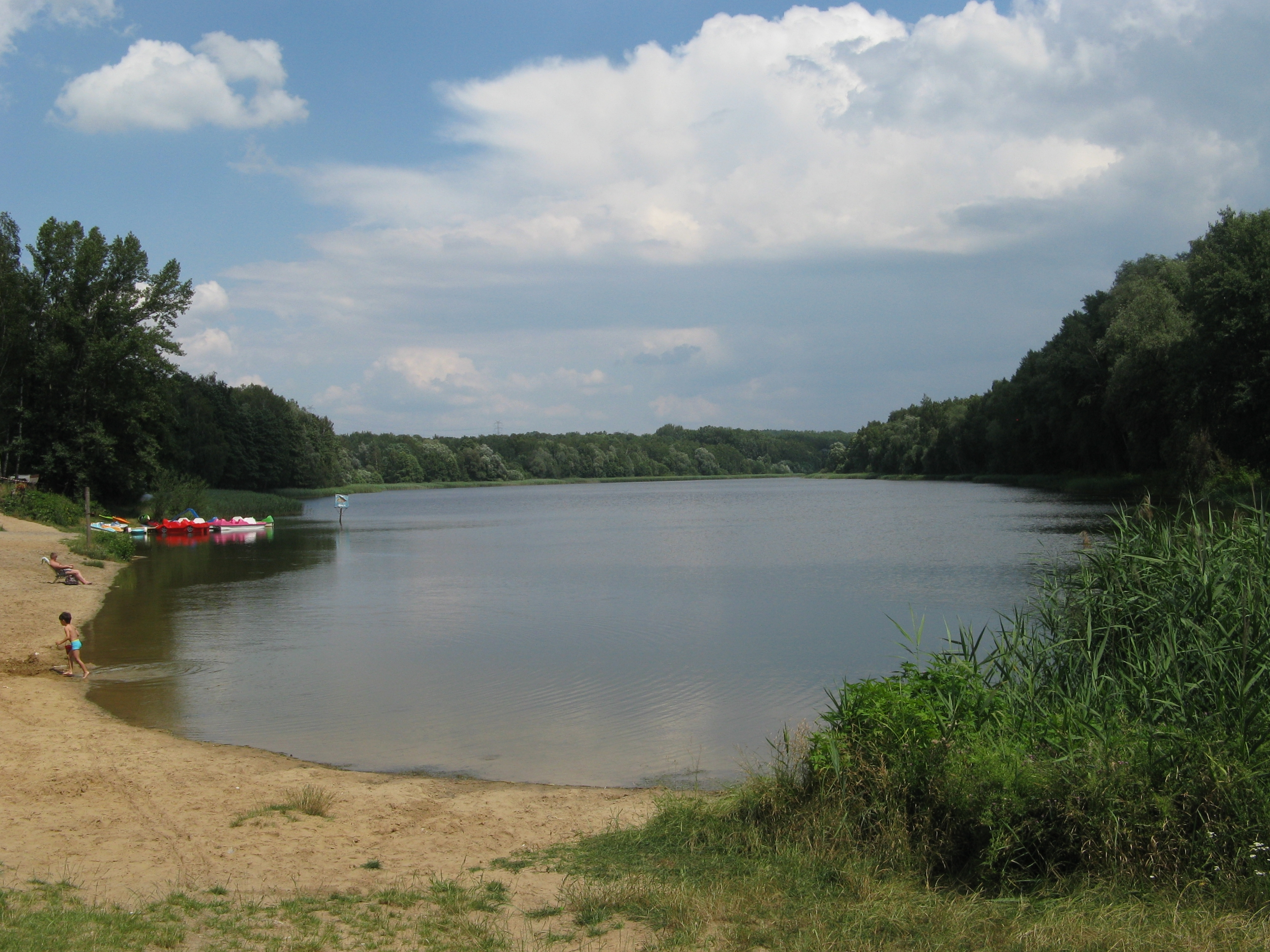 Rogoźnik II (Zalew Górny) pond in Rogoźnik, powiat będziński, Poland.